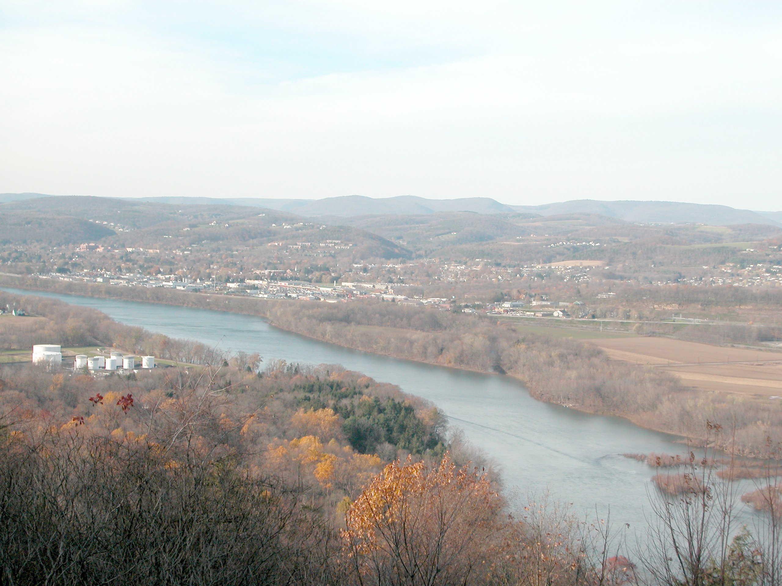 Williamsport Seen from the southeast on Bald Eagle Mountain. In the foreground is the west branch of the Susquehanna River. Beyond Williamsport can be seen the higher part of the dissected Allegheny Plateau. Image copyleft: Image taken by me, released under GFDL, Pollinator 06:23, Dec 25, 2004 (UTC)